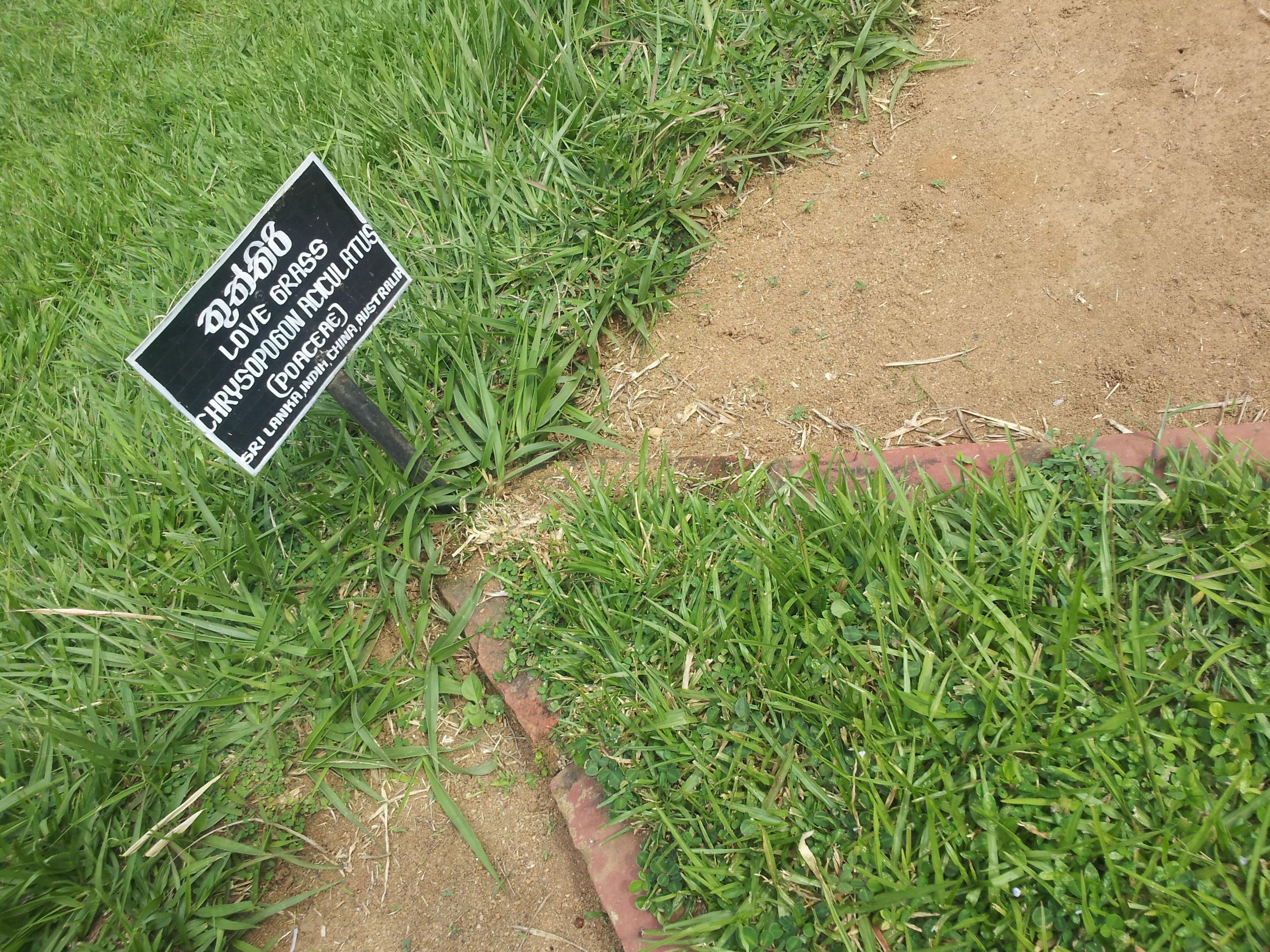 Chrysopogon aciculatus at Peradeniya Royal Botanical Garden